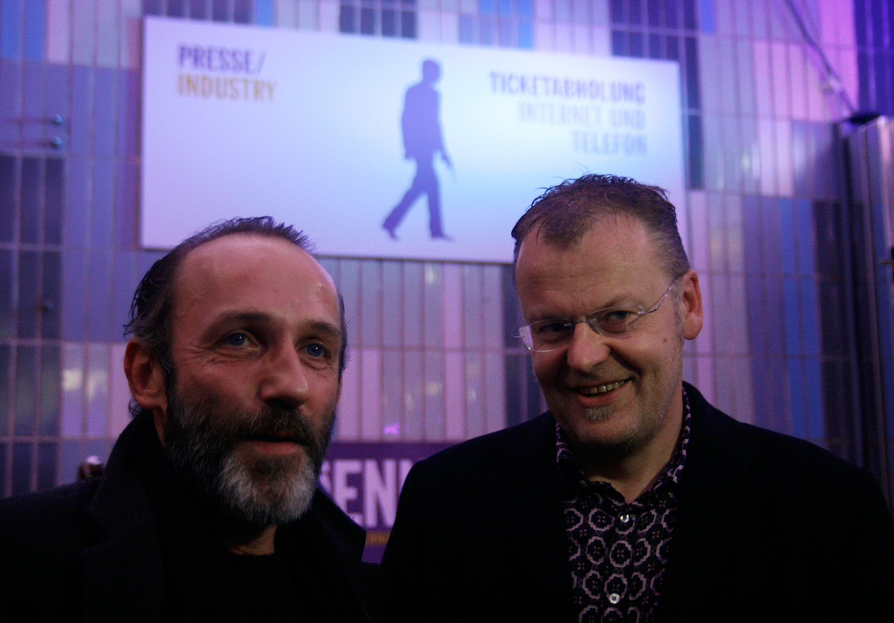 Karl Markovics and Stefan Ruzowitzky at the opening evening of the Vienna International Film Festival 2009, Gartenbaukino/Vienna.